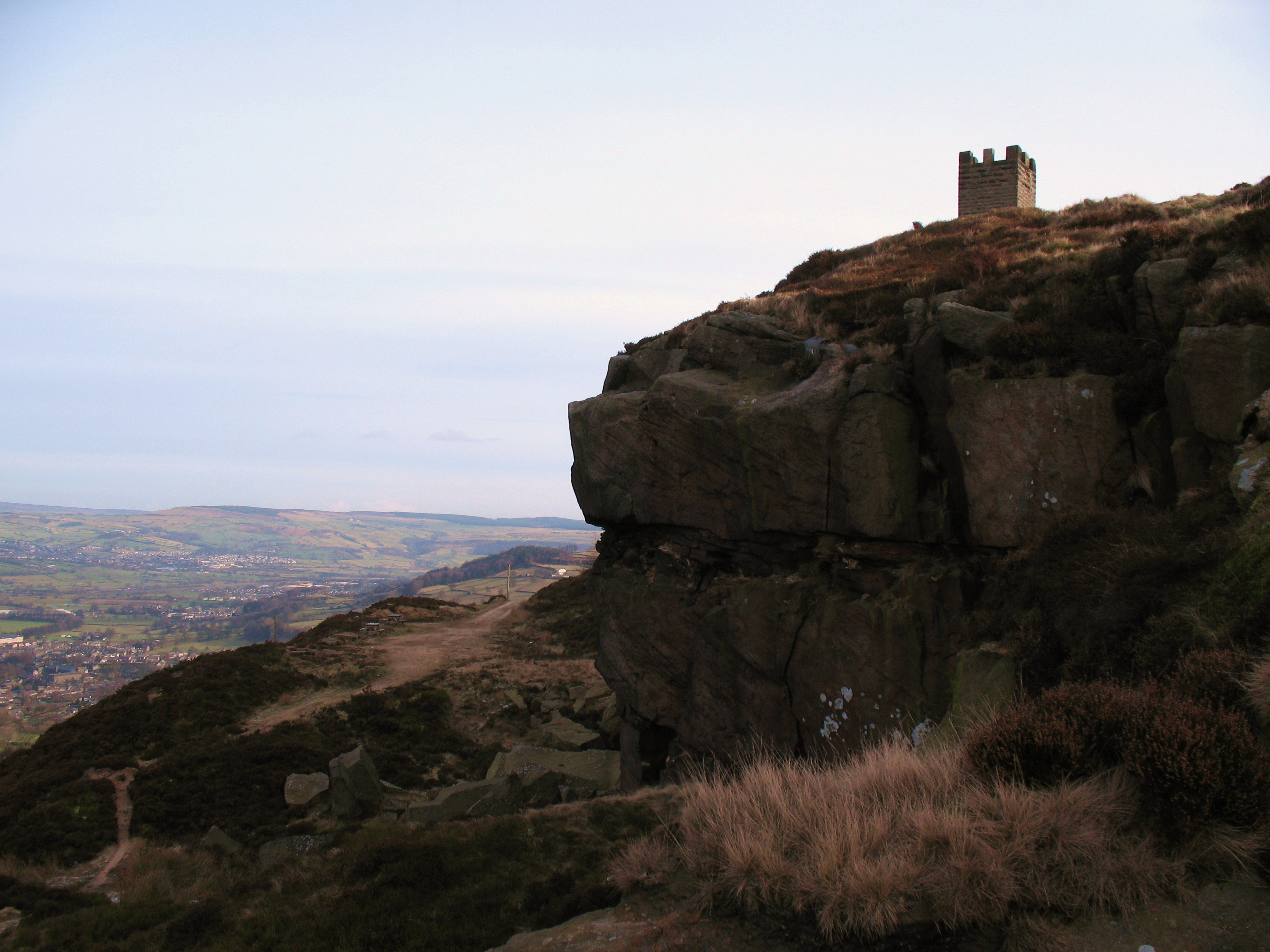 Old Quarry and Lund's Tower Old sandstone quarry at the eastern end of Earl Crag. Lund's Tower stands on the crest of the hill.